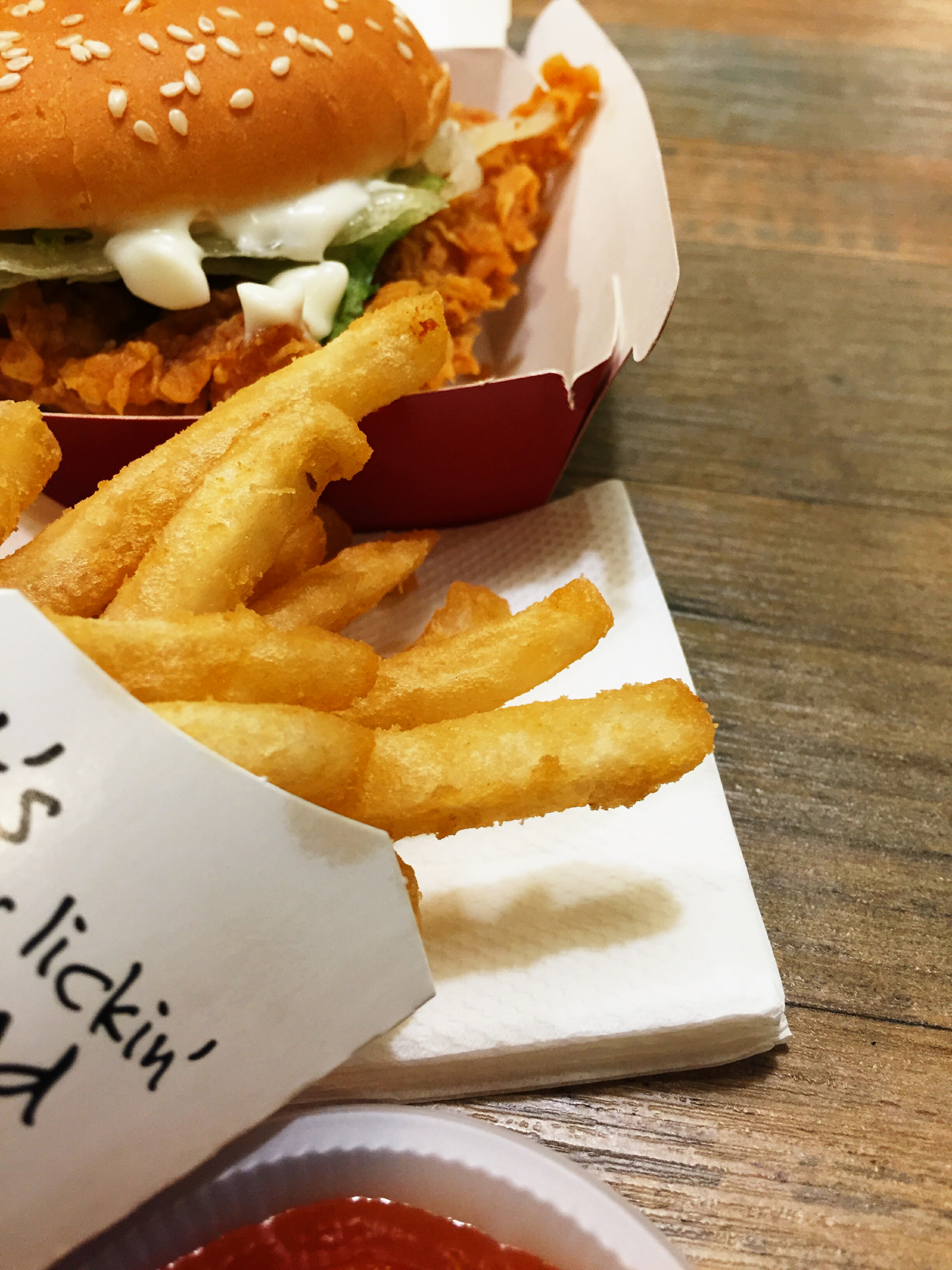 KFC's Zinger Burger as served in Malaysia.